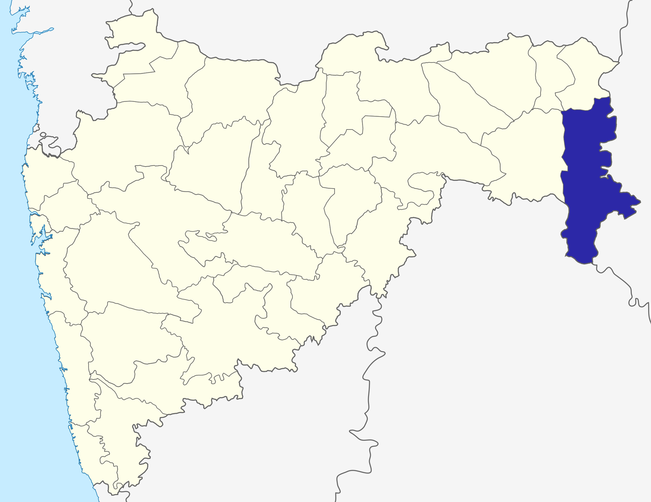 Location of Gadchiroli in Maharashtra